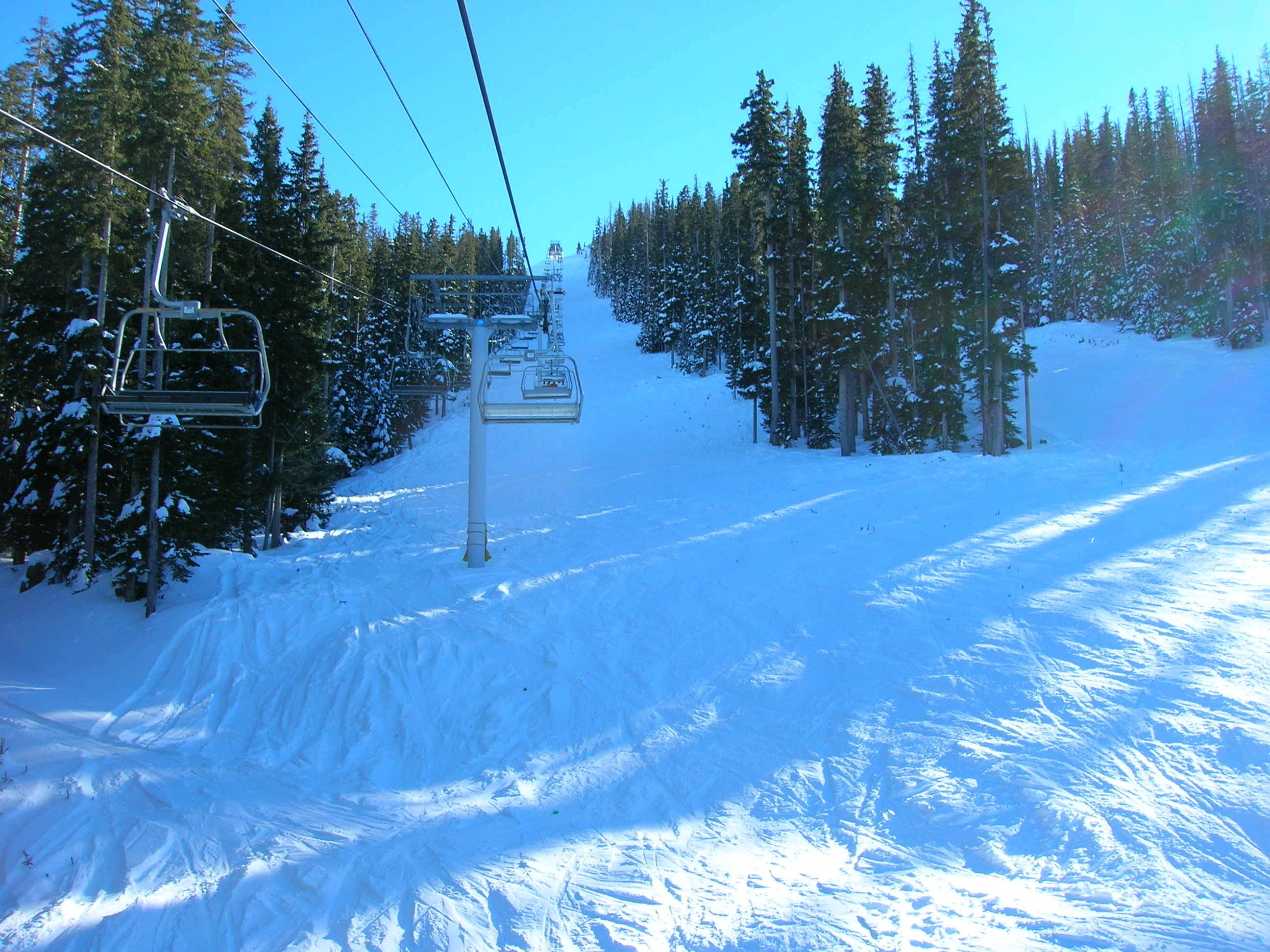 High-speed quad chairlift on Sunrise Peak.